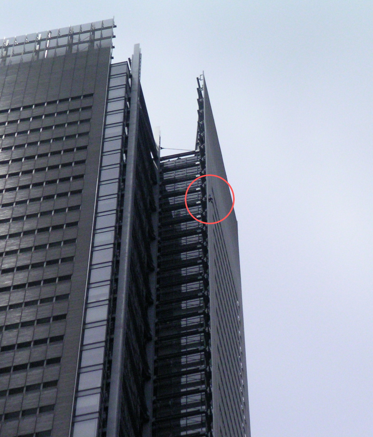 Alain Robert climbing the New York Times Building on June 5, 2008. Circle has been added to highlight Robert's location.